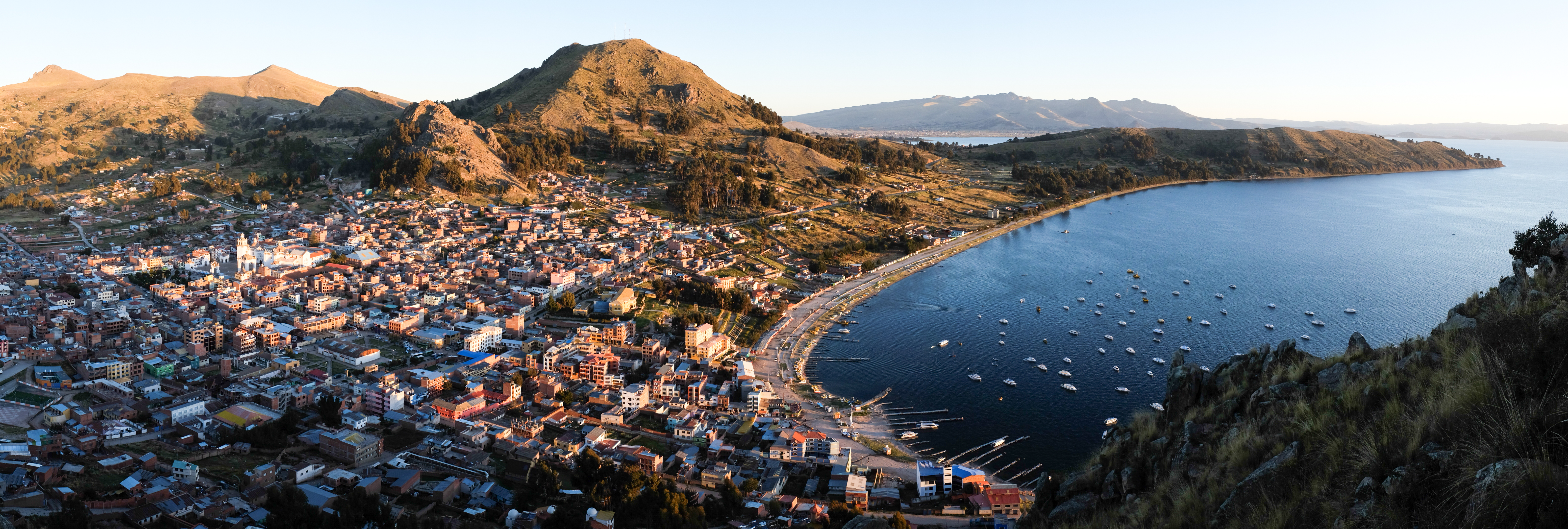 Panoramic view of Copacabana, Bolivia, on the lake Titicaca. Photo taken from Calvario hill.